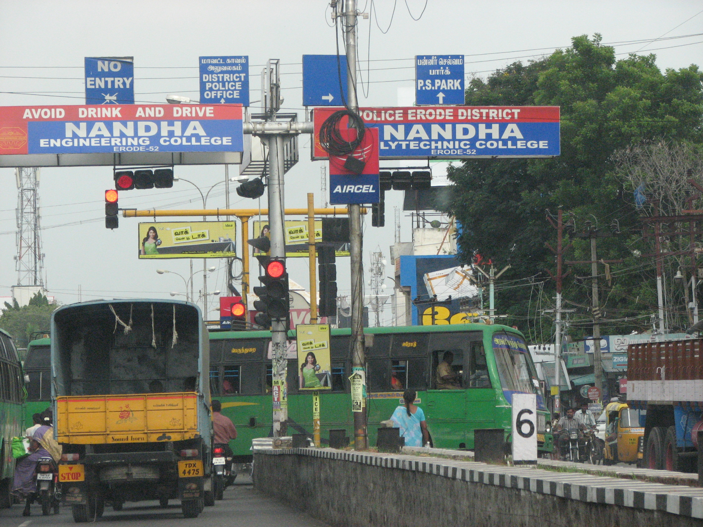 Street life in Erode Tamilnadu